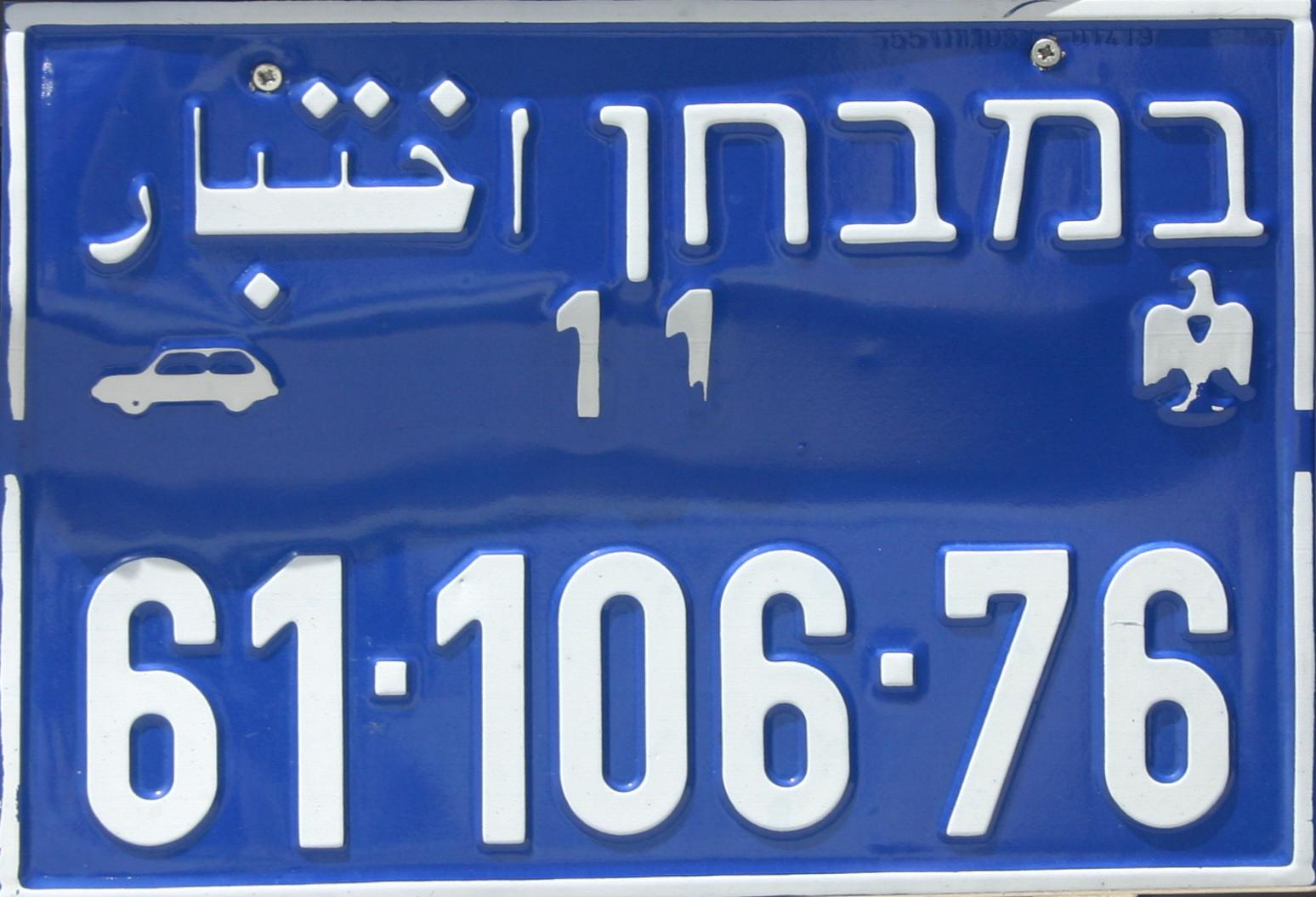 Palestinian test license plate